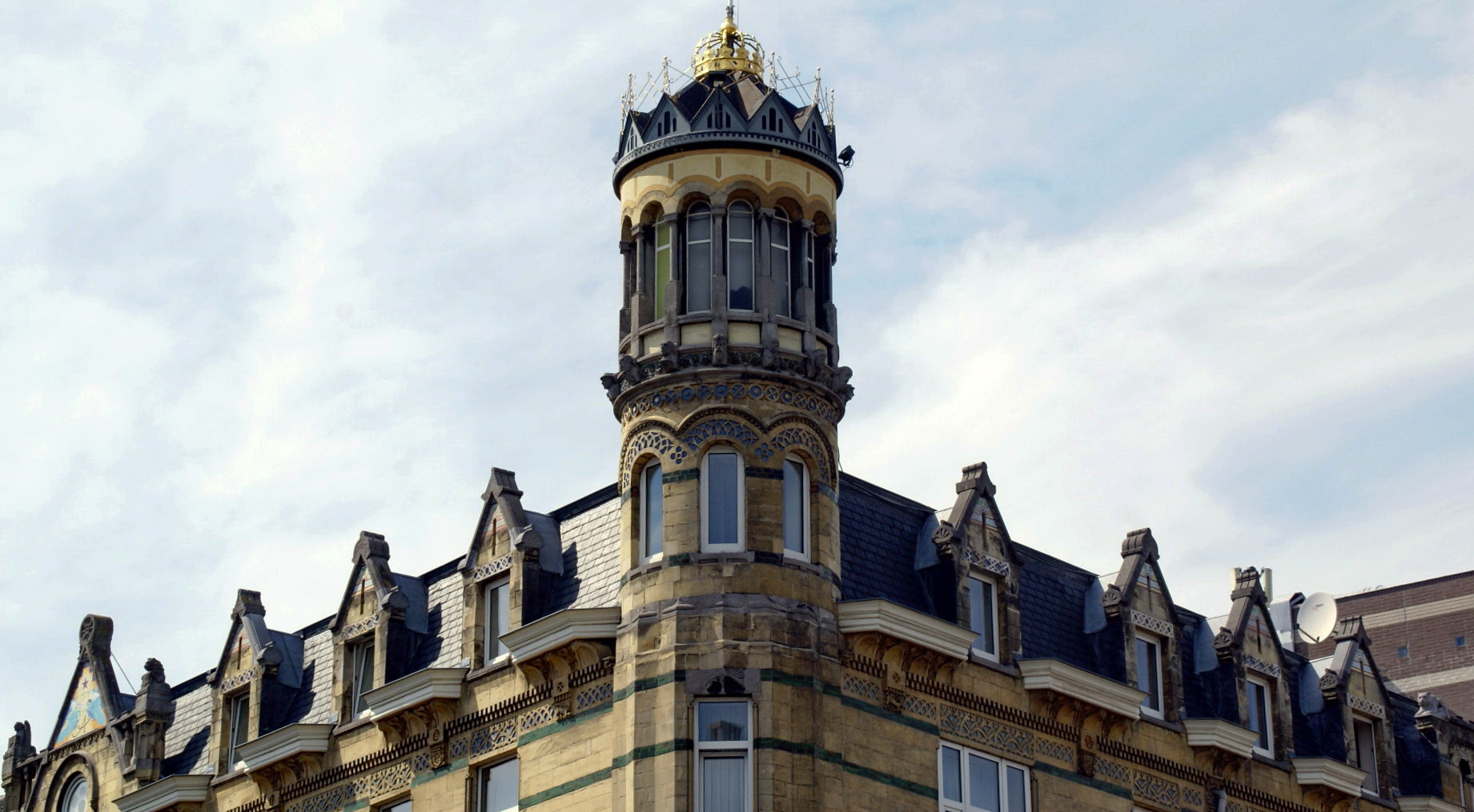 Hotel de l'Empereur at Stationsstraat in Maastricht, Netherlands